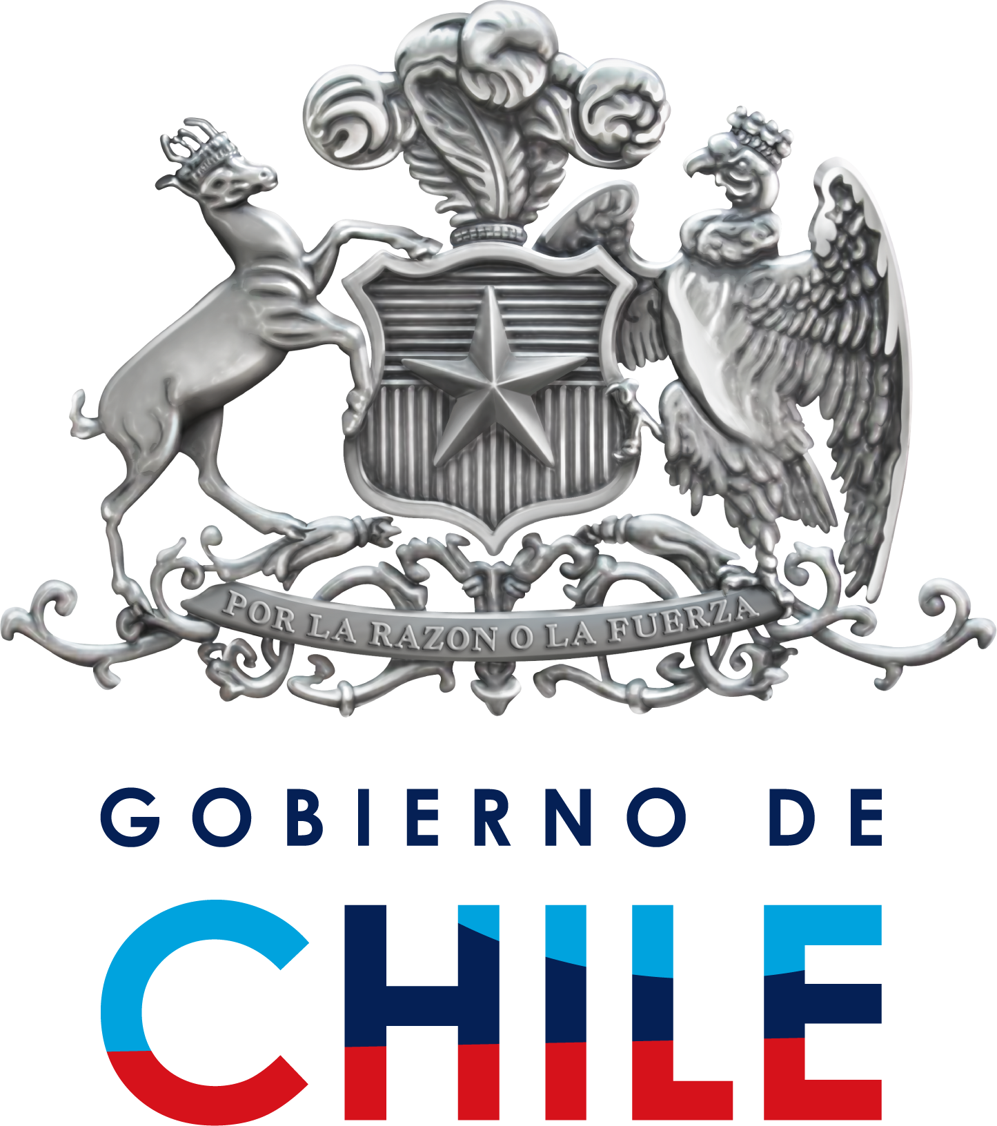 Government logo of Sebastián Piñera, President of Chile for the term 2010-2014.